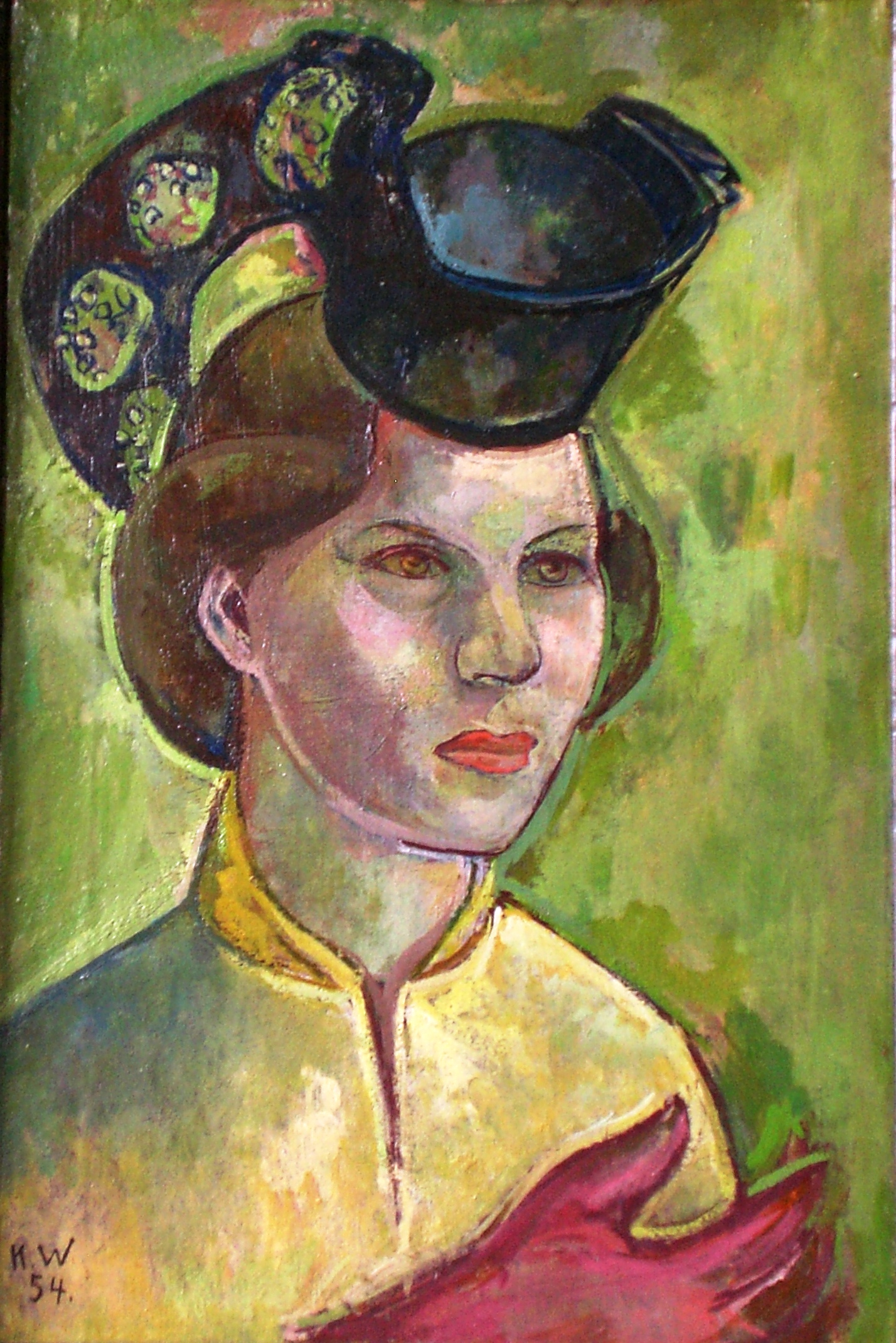 self-portrait von Karoline Wittmann, 1954